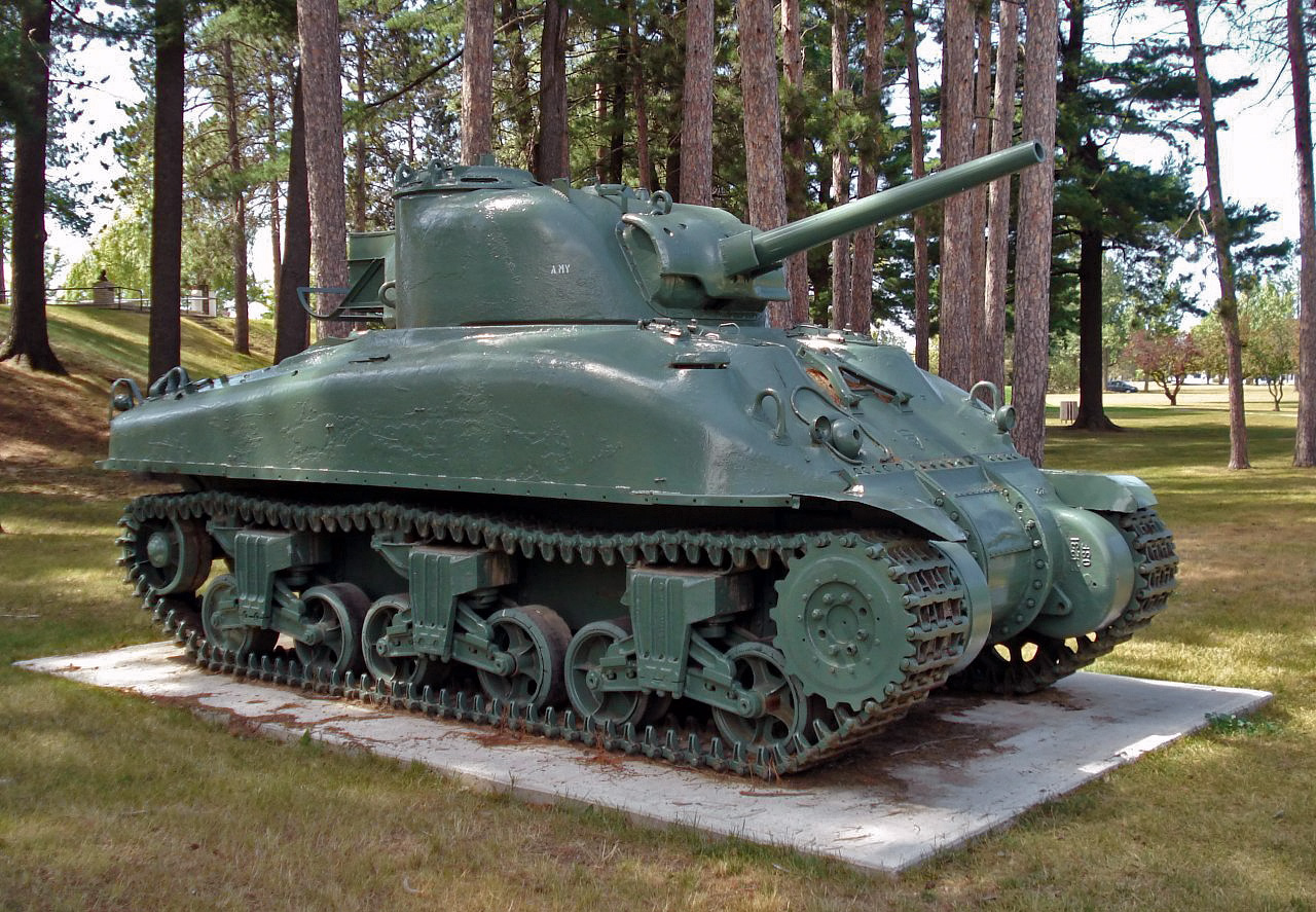 Grizzly M4A1 Sherman tank at Base Borden Military Museum.